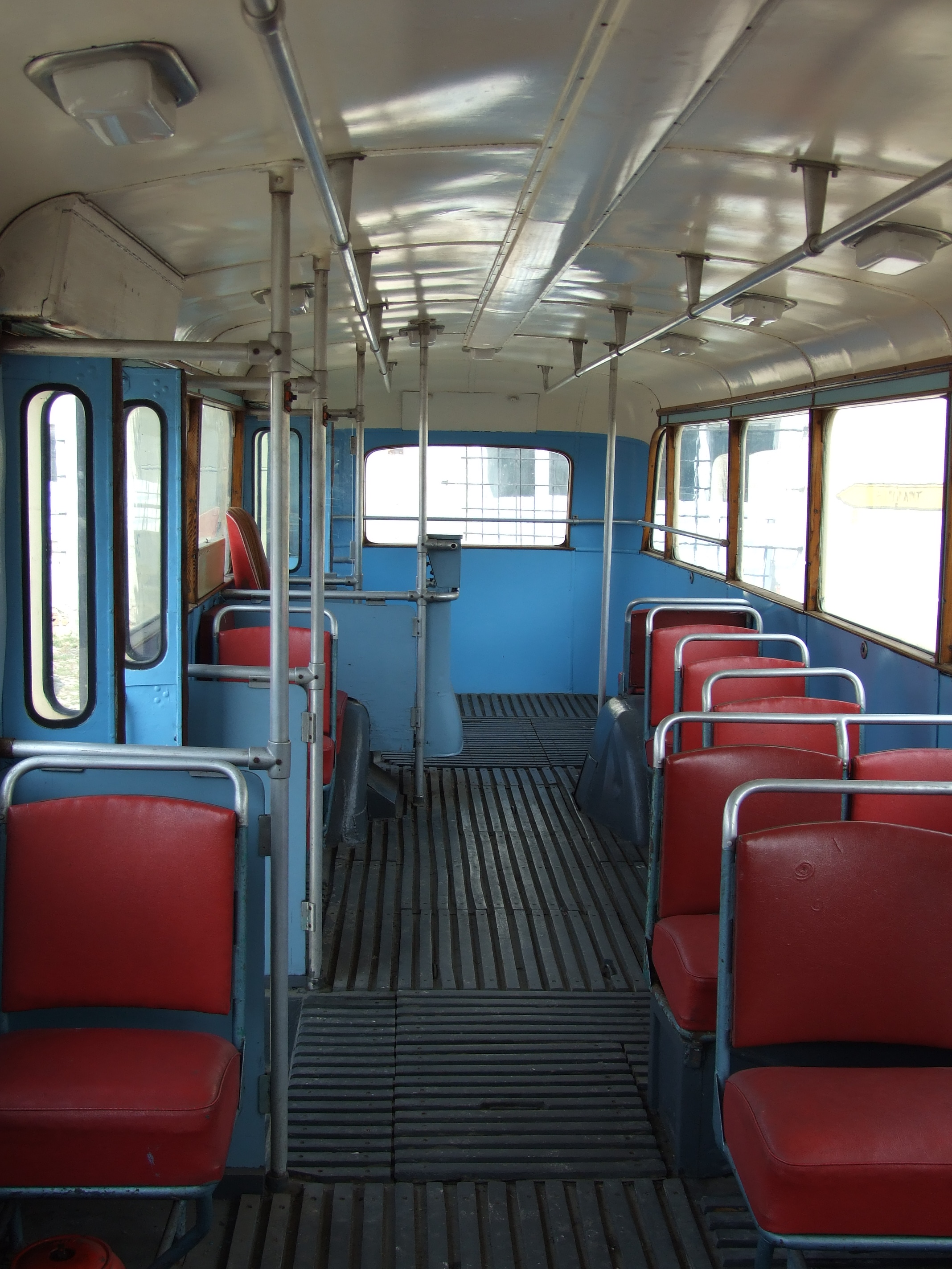 Škoda 8Tr5 trolleybus inside in Brno-Řečkovice.help